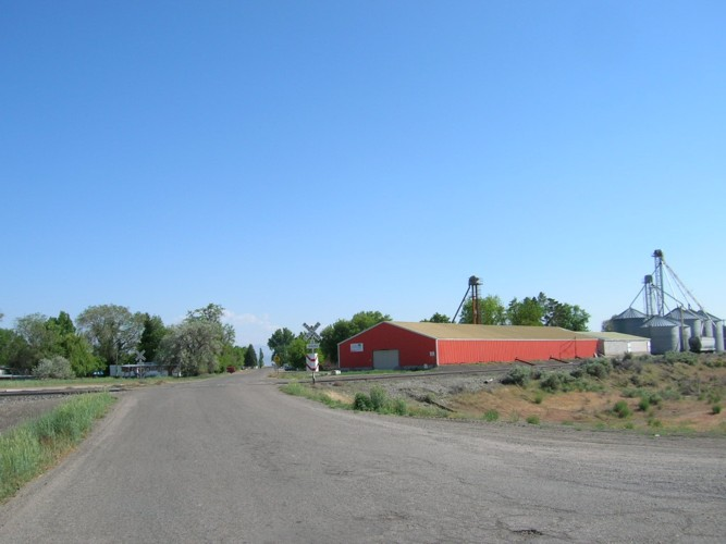 Acequia, Idaho as seen from Idaho State Highway 24. Taken by Faustus37, 25 May 2006.